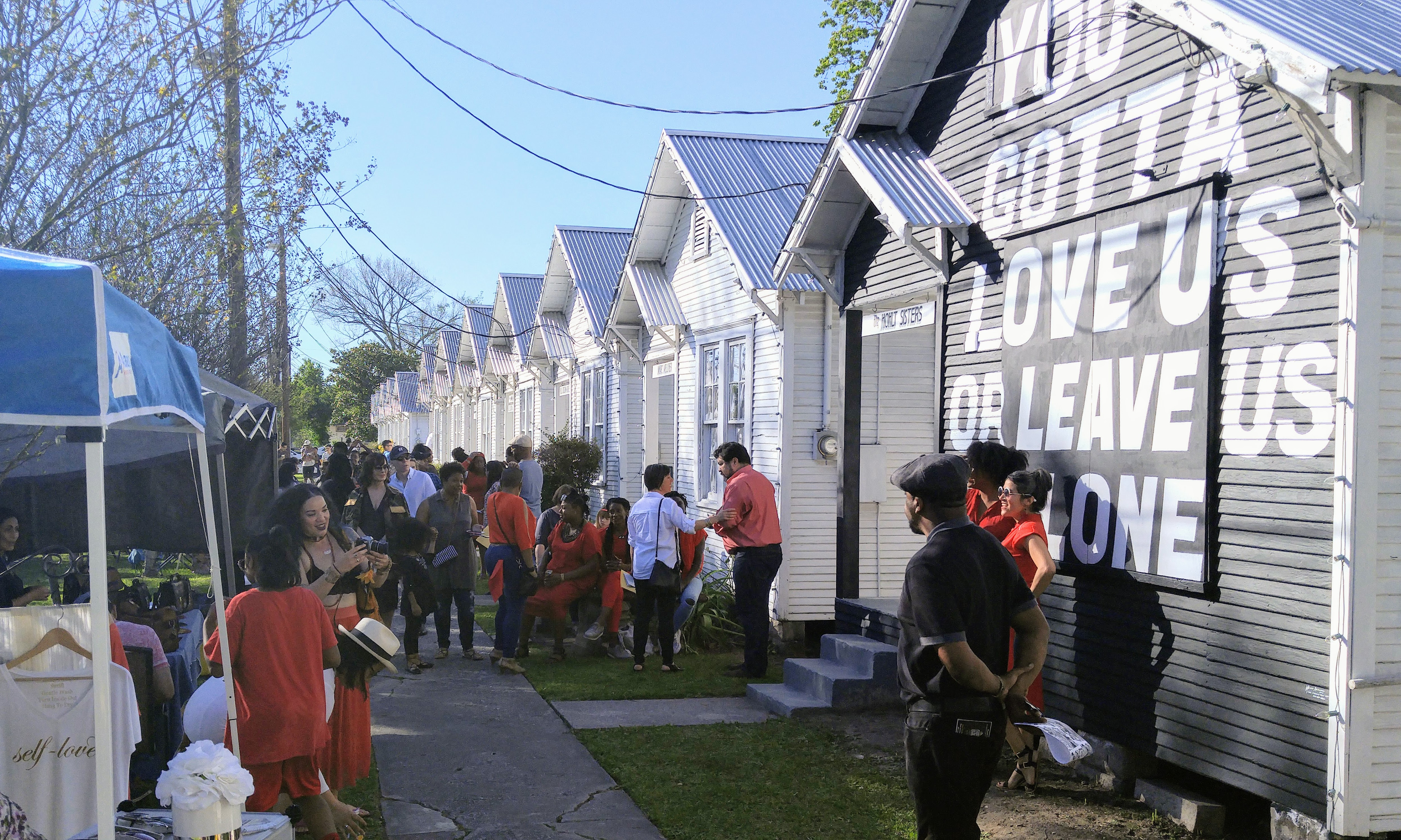 The opening block party for Round 46 at Project Row Houses with Black Women Artists for Black Lives Matter. BWAforBLM is a collective of Black women, queer, and gender non-conforming artists formed in solidarity with the Black Lives Matter movement.